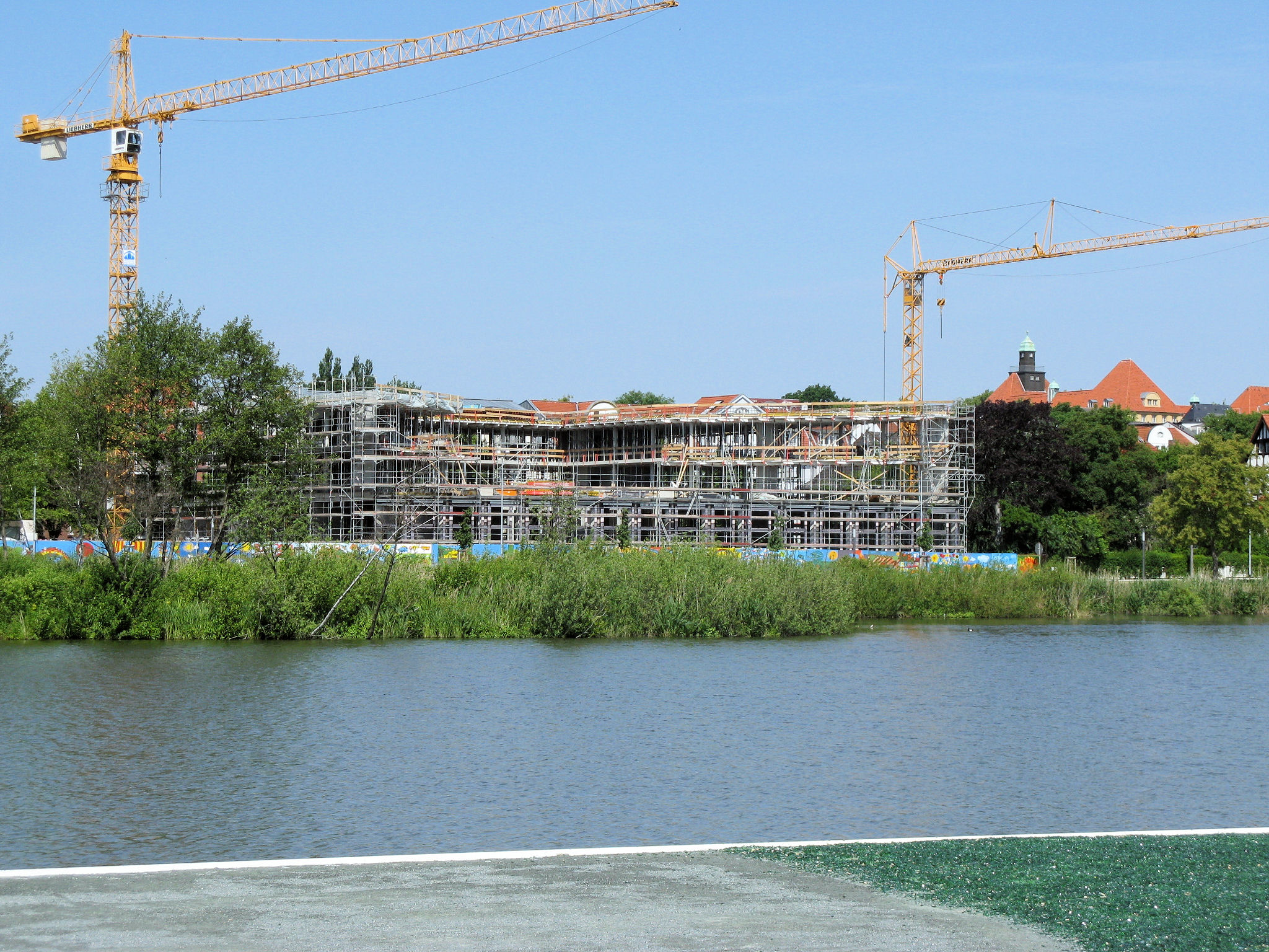 Construction of new IHK-Building in Schwerin, Mecklenburg-Vorpommern, Germany